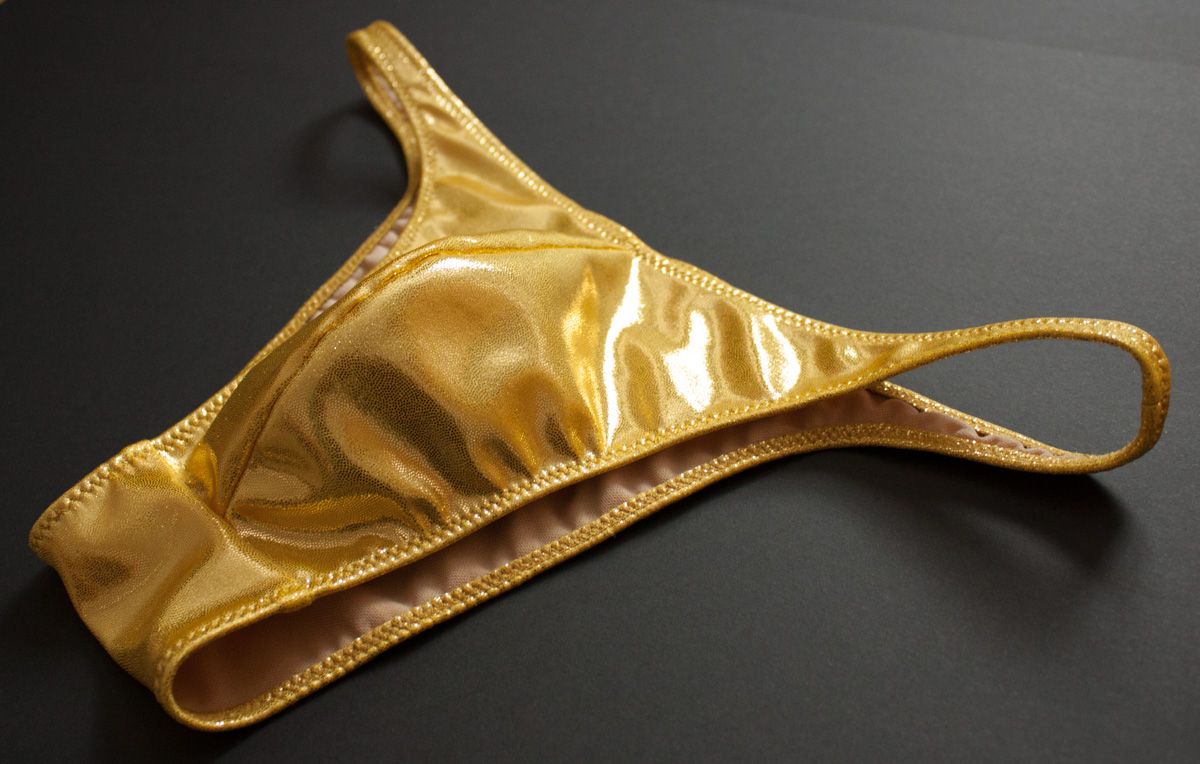 Posingslip